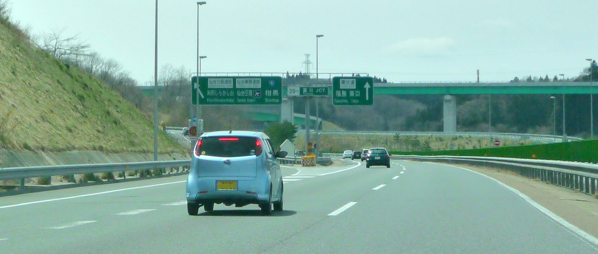 Tohoku Expressway Tomiya JCT